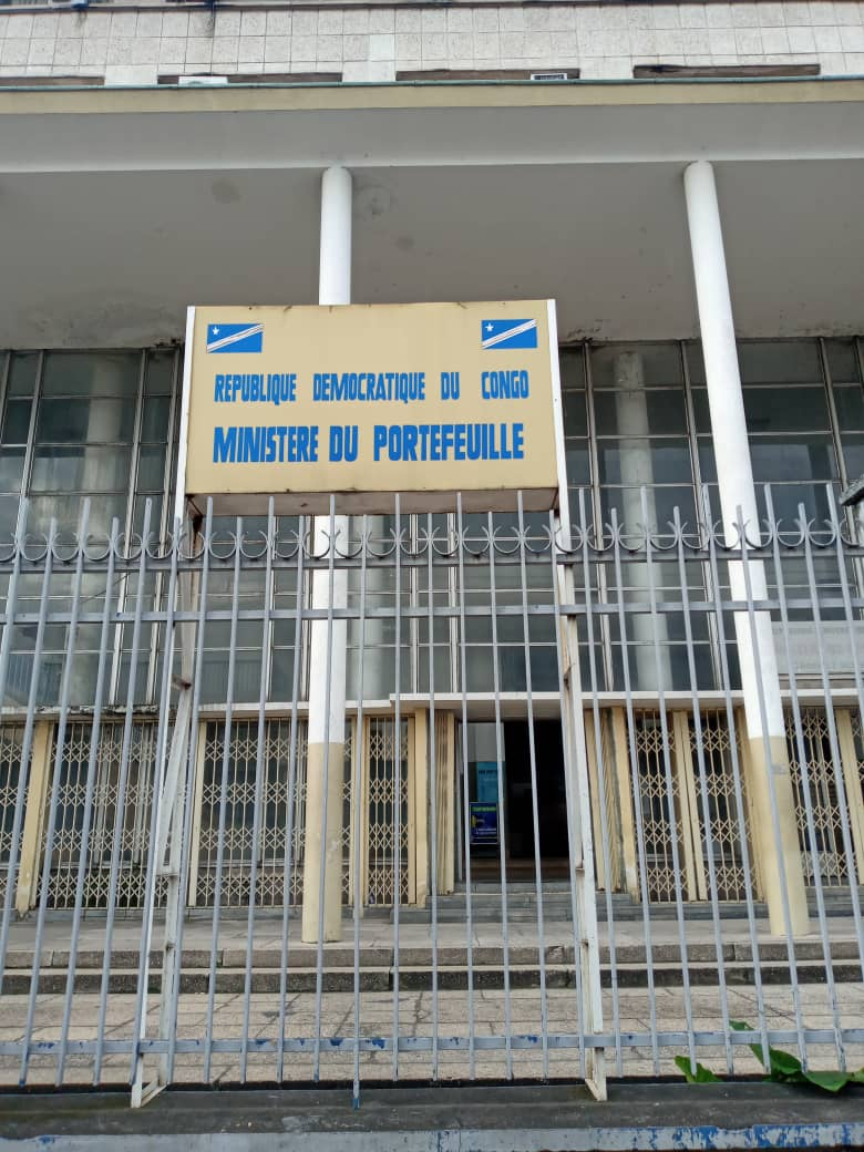 This is an image with the theme "Africa on the Move or Transport" from: Democratic Republic of the Congo